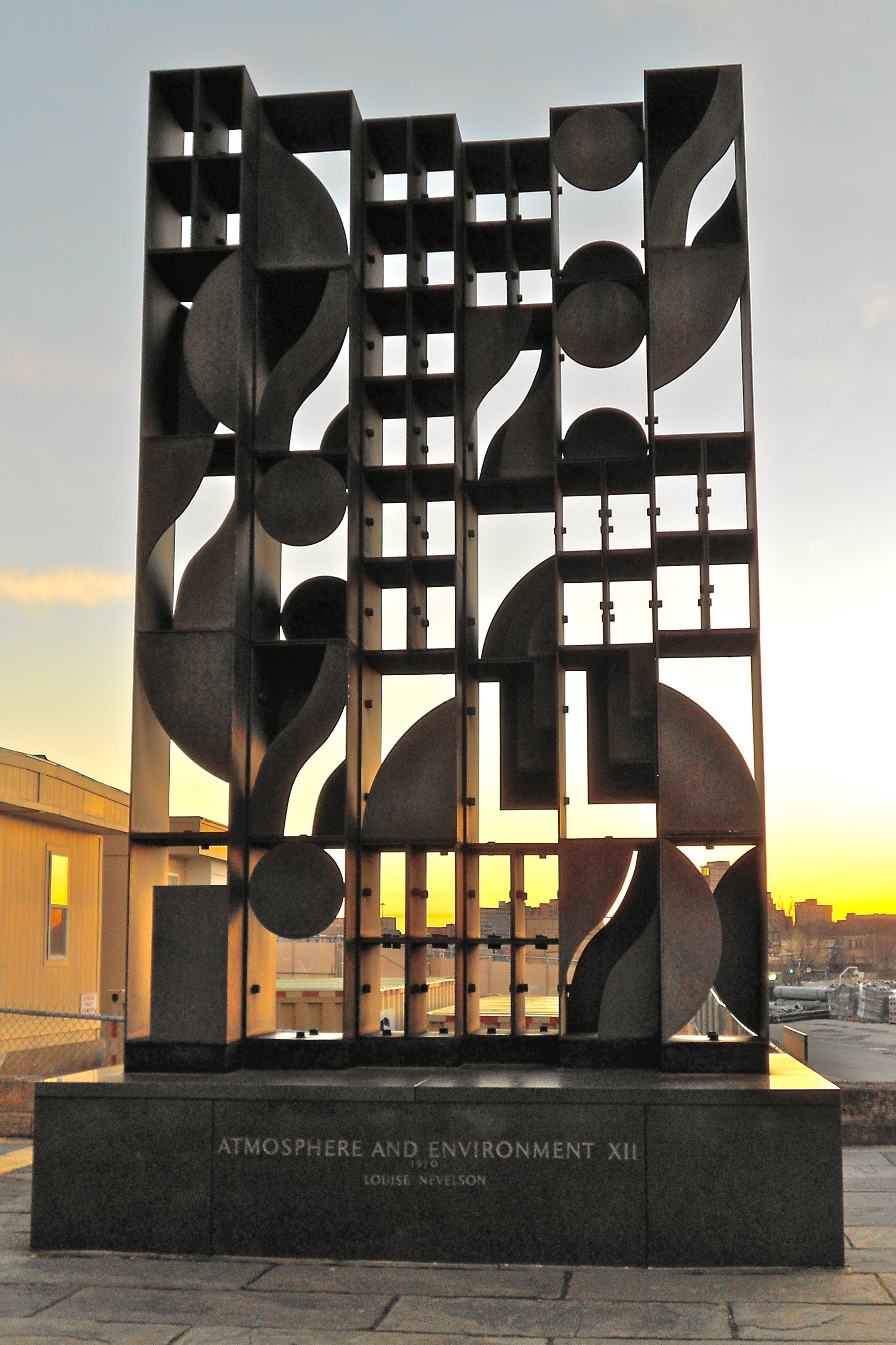 Atmosphere and Environment XII, (sculpture). Nevelson, Louise, 1899-1988, sculptor. Lippincott, Inc., fabricator. Cold Spring Granite Company, contractor. 1970. Installed 1973. Medium: Sculpture: Cor-Ten steel; Base: granite with plywood support. Dimensions: Sculpture: approx. 174 x 123 x 61 in.; Base: approx. 29 x 138 1/2 x 101 in. (18,000 lbs.). Inscription: (Base:) ATMOSPHERE AND ENVIRONMENT XII/1970/LOUISE NEVELSON unsigned. Administered by Fairmount Park Art Association, 1616 Walnut Street, Suite 2012, Philadelphia, Pennsylvania 19103 Located Philadelphia Museum of Art, 26th Street & Benjamin Franklin Parkway, Western entrance terrace, Philadelphia, Pennsylvania 19130 Smithsonian Control Number: IAS PA000013 Published before 1978 without visible copyright notice, therefore in the public domain